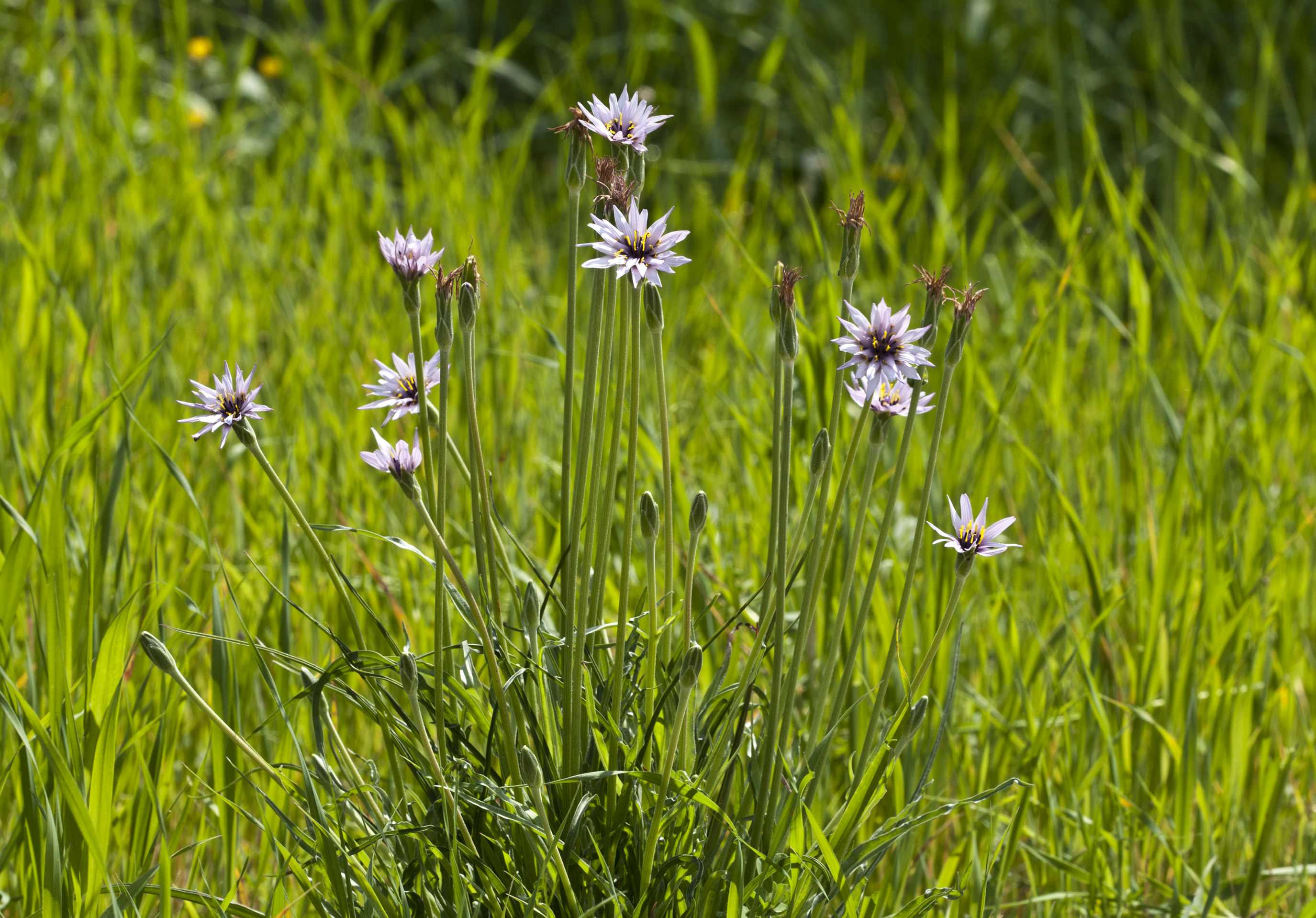 Flower/s of Scorzonera phaeopappa. Balcalı, Adana - Turkey.